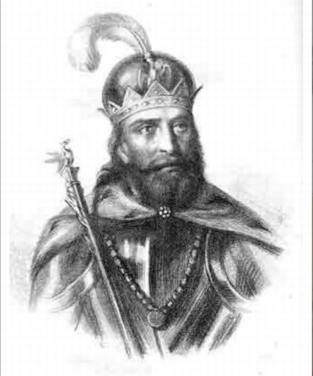 Mircea I the Elder, prince of Wallachia